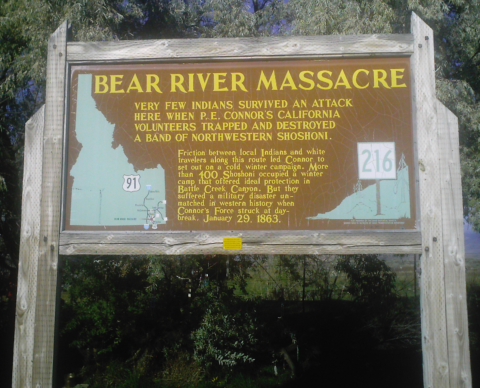 Roadside sign giving a brief description of the events of the Bear River Massacre, located on U.S. Highway 91, about 3 miles north of Preston.